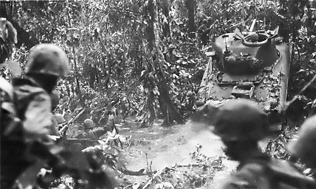 Medium tank crosses Suicide Creek to blast Japanese emplacements holding up the Marine advance - Operation Dexterity